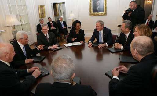 President George W. Bush shares a light moment with Palestinian President Mahmoud Abbas, second from left, Israel's Prime Minister Ehud Olmert, lower right during a meeting Tuesday, November 27, 2007, during the Annapolis Conference in Annapolis, Maryland. With them are senior officials from Israel, Palestine and the United States, including National Security Adviser Stephen Hadley, third from left, and United States Secretary of State Condoleezza Rice. (White House photo by Chris Greenberg)